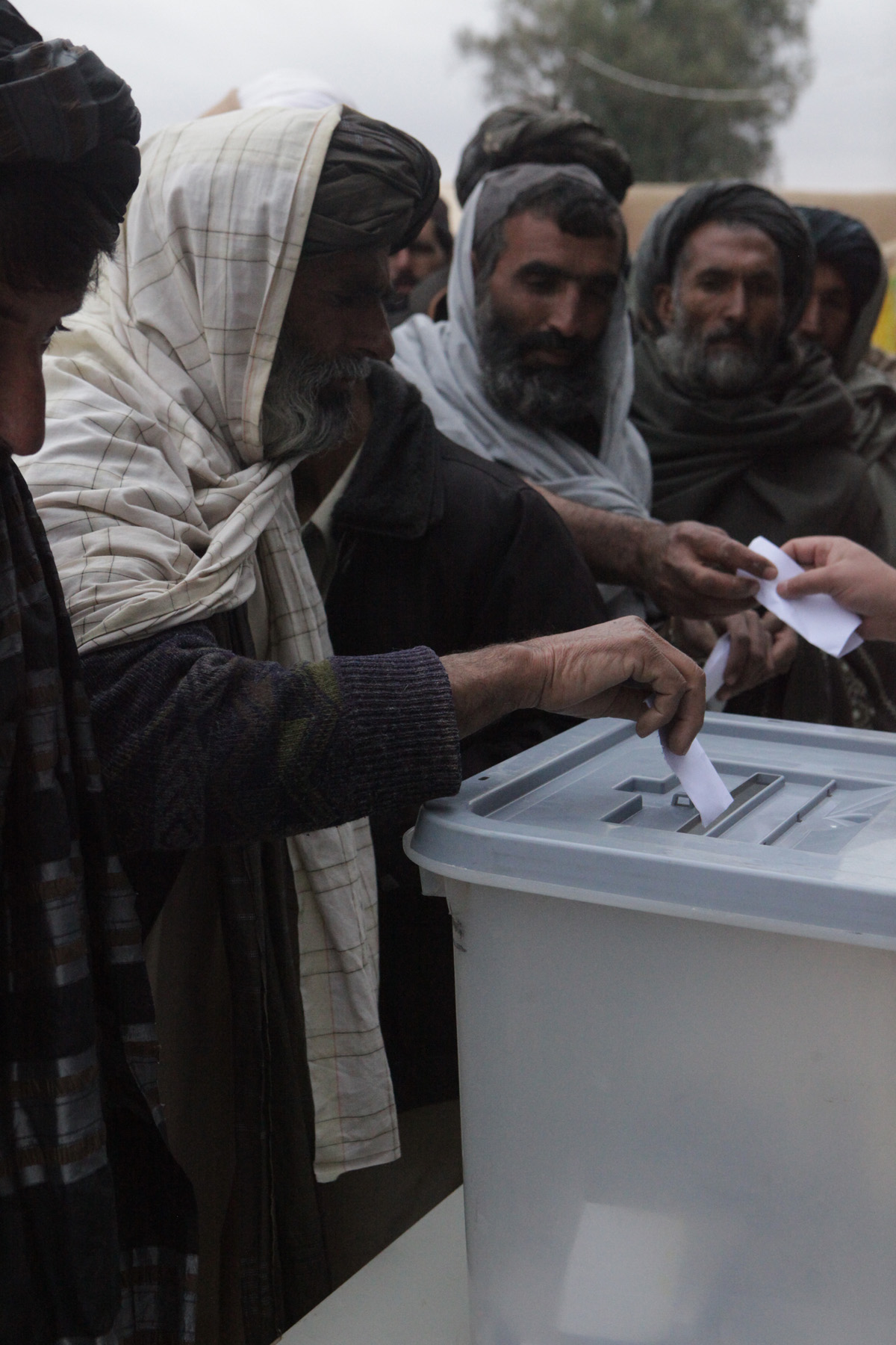 One by one, local Afghans turn in their votes during the elections in Marjah, Afghanistan, March 1. Elections are being held to elect district community representatives for the Marjah District. (Photo by: Cpl Nicholas S. Edinger)Nicholas S. Edinger/Released) Regimental Combat Team 1 Date Taken:03.01.2011 Location:MARJAH, AF Related Photos